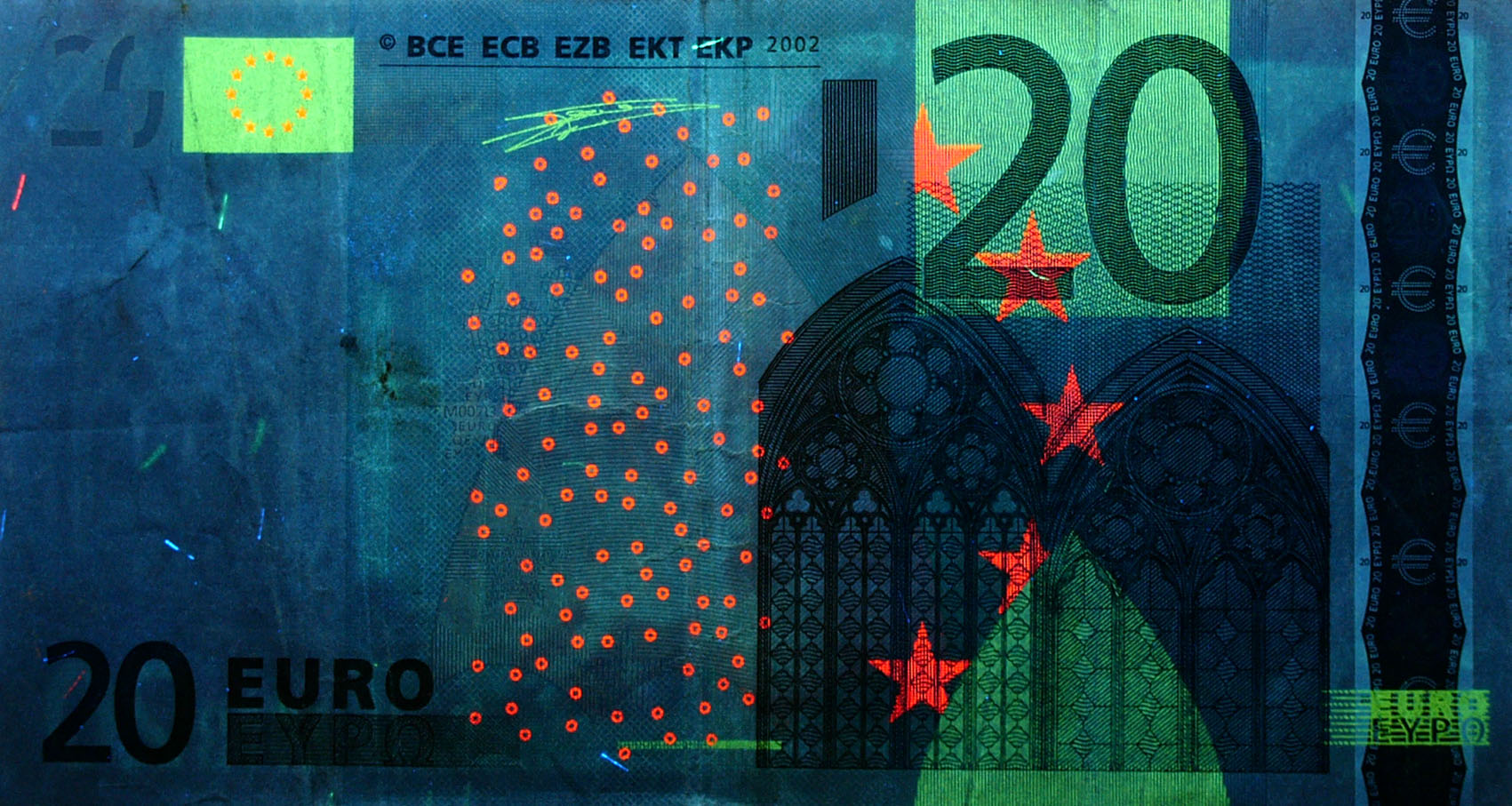 20-euro banknote under fluorescent light (UV-A)